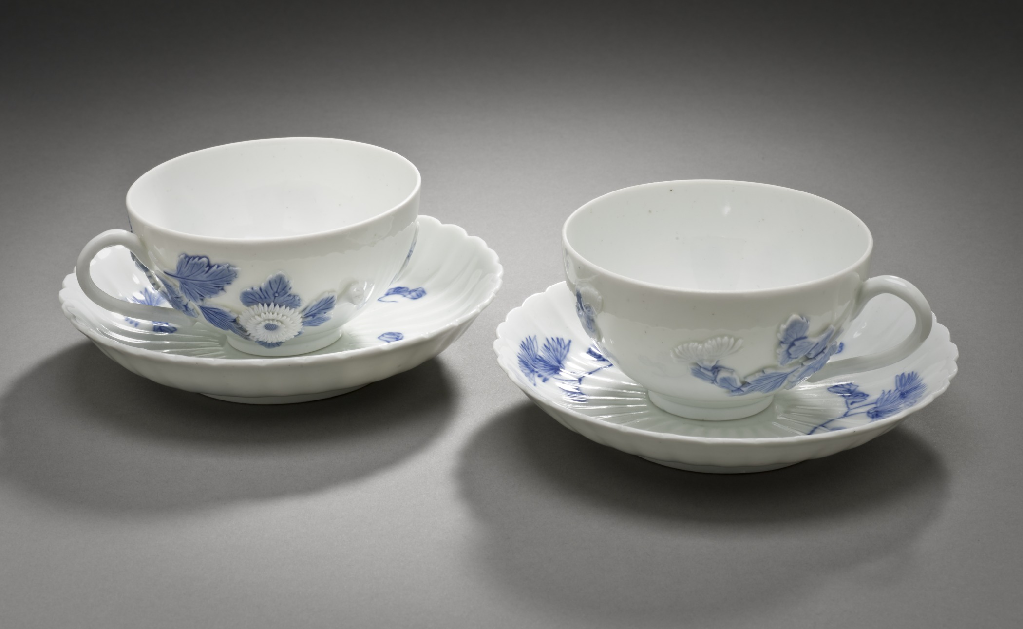 Japan, late 19th century Furnishings; Serviceware Hirado ware; porcelain with underglaze blue a-b) Teapot overall: 4 13/16 x 7 1/4 x 4 1/2 in. (12.22 x 18.42 x 11.43 cm); c) Creamer: 3 3/16 x 5 1/8 x 3 9/16 in. (8.1 x 13.02 x 9.05 cm); d-e) Sugar bowl and lid overall: 3 15/16 x 5 13/16 x 4 1/4 in. (10 x 14.76 x 10.8 cm); f, h) Cup: 1 15/16 x 4 3/16 x 3 7/16 in. (4.92 x 10.64 x 8.73 cm); g, i) Saucer diameter: 5 3/16 in. (13.18 cm); g, i) Saucer height: 1 1/16 in. (2.7 cm) Gift of Allan and Maxine Kurtzman (M.2006.132.10a-i) Japanese Art